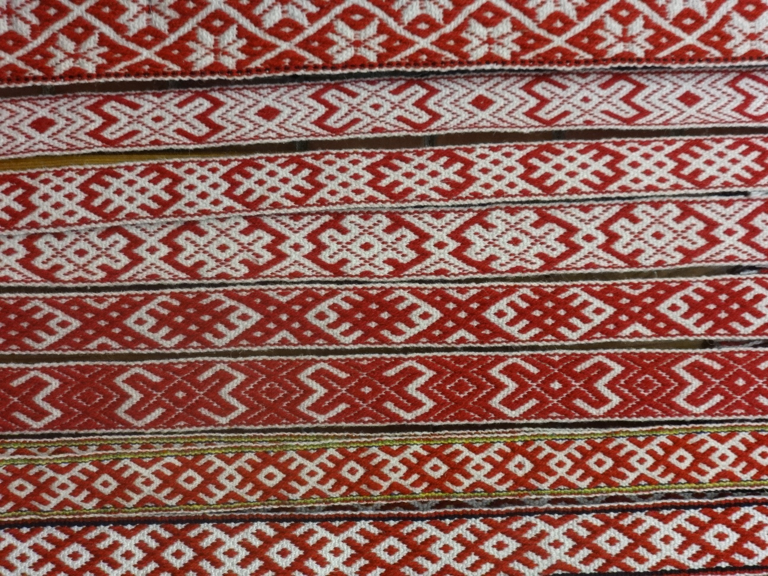 Belarusian traditional folk belts